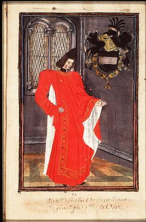 Statuts, Ordonnances et Armorial de l'Ordre de la Toison d'Or (Statutes, Ordonnances and armorial of the Order of the Golden Fleece) Place of origin, date: Southern Netherlands; 1473. Added sections: Southern Netherlands; 1478 or shortly after and 1491 or shortly after Material: Vellum, ff. 86, 249x187 (167x106) mm, 23 lines, littera cursiva (lettre bourguignonne). French. Binding: 18th-century brown leather Decoration: 1 full-page miniature (170x115 mm) with border decoration; 92 miniatures (185/155x120/100 mm); 1 historiated initial (80x90 mm) with border decoration; decorated initials with border decoration (ff., Added section: miniatures ; 4 drawings for miniatures (not finished) Provenance: Presented in 1473 by Gilles Gobet, King of Arms of the Order of the Golden Fleece, to Charles the Bold, Duke of Burgundy and the other Knights during the Chapter of the Order held at Valenciennes; Treasure of the Golden Fleece, Brussls; taken away by the Treasurer C.-F. Humyn (d. 1735) or his daughter C.Ch. de Corte; by legacy to her daughter M.-L. de Corte, wife of Ph.-E. de Poederlé; purchased in 1781 at the Poederlé sale by G.-J- Gérard of Brussels; acquired in 1832 as part of the Gérard collection (no. A 27)